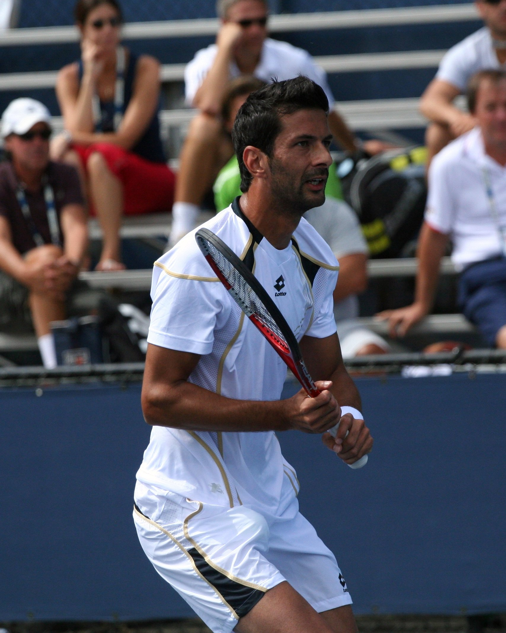 U.S. Open Thursday, Sept. 3, 2009